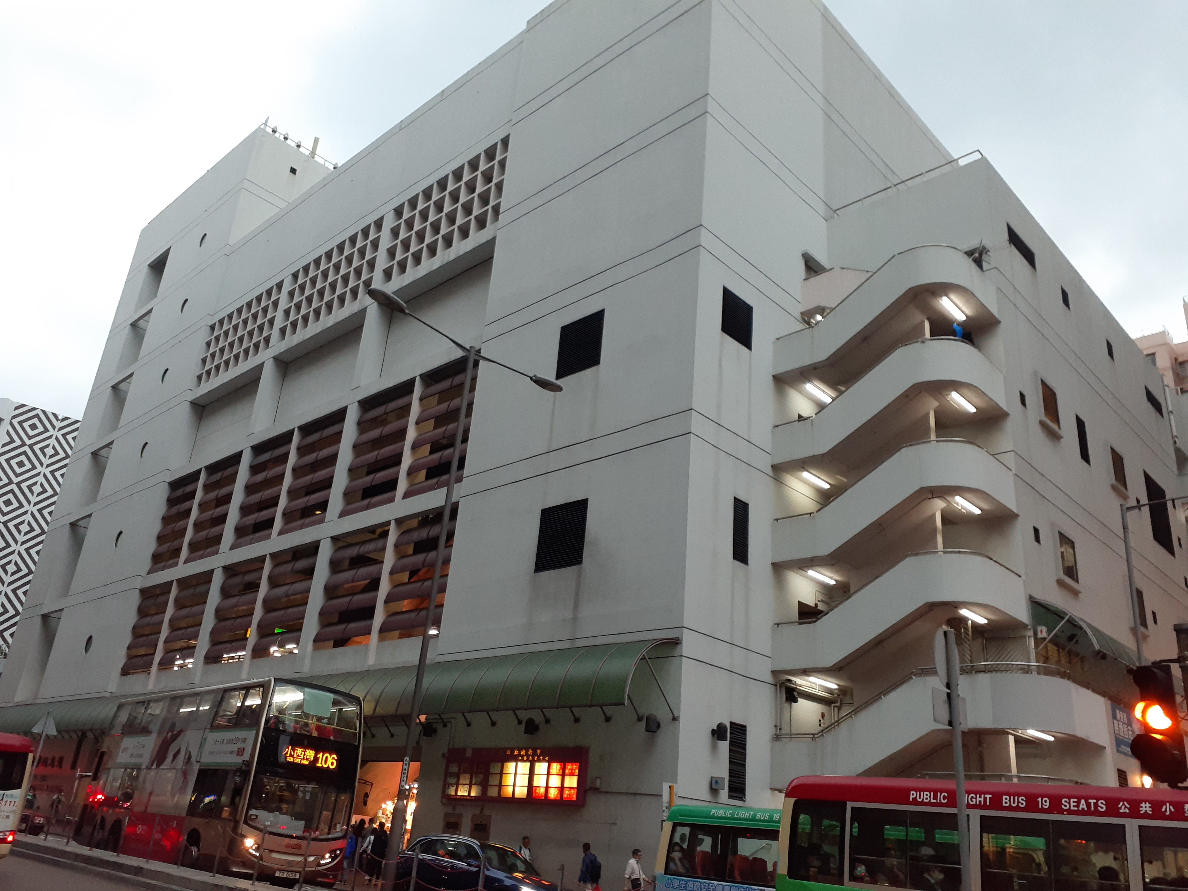 HK 紅磡 Hung Hom 馬頭圍道 Ma Tau Wai Road 蕪湖街 Wuhu Street 黃昏 evening March 2020